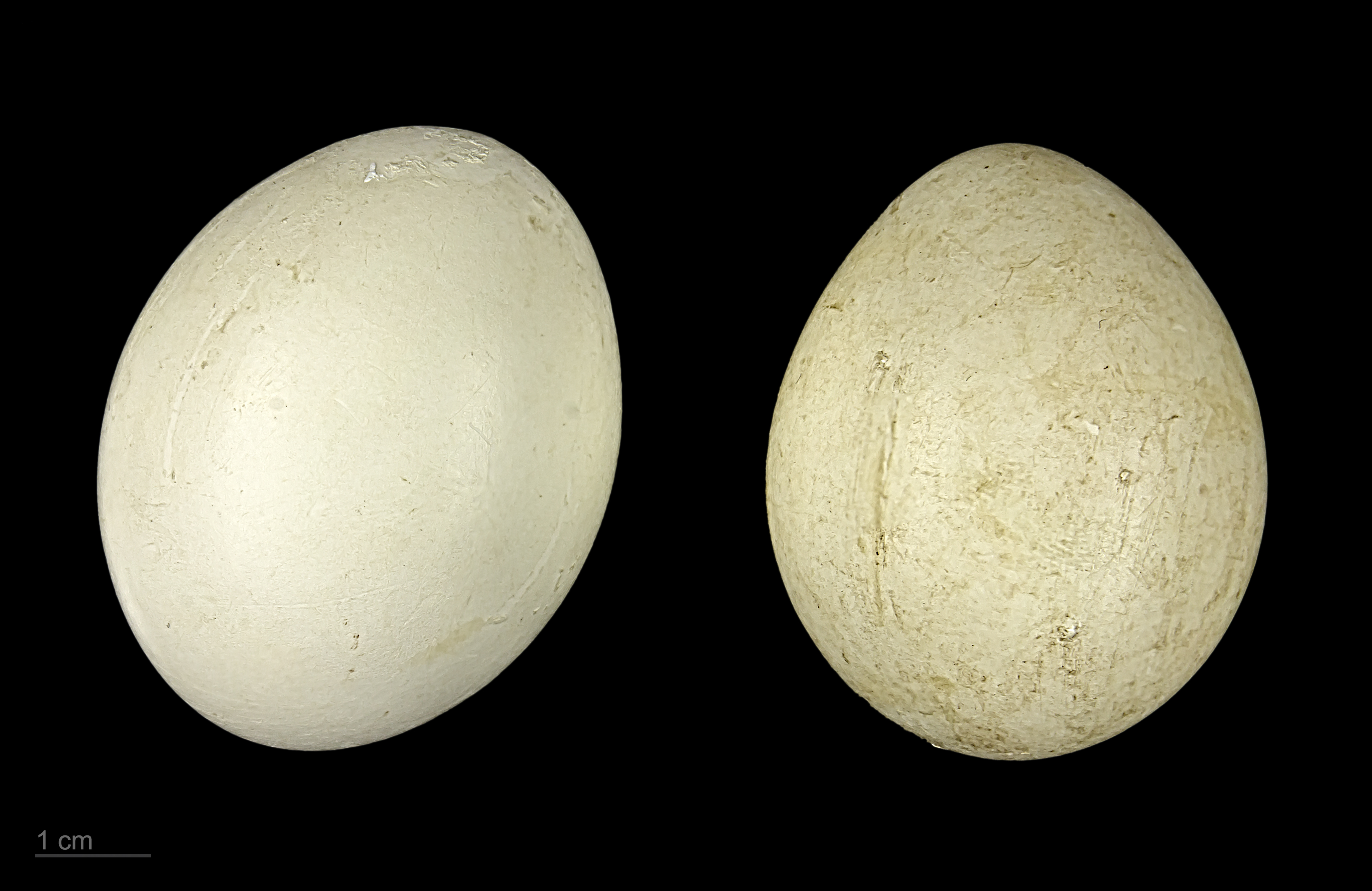 Eggs of white-faced whistling duck Two specimens of the same spawn ; collection of Jacques Perrin de Brichambaut.